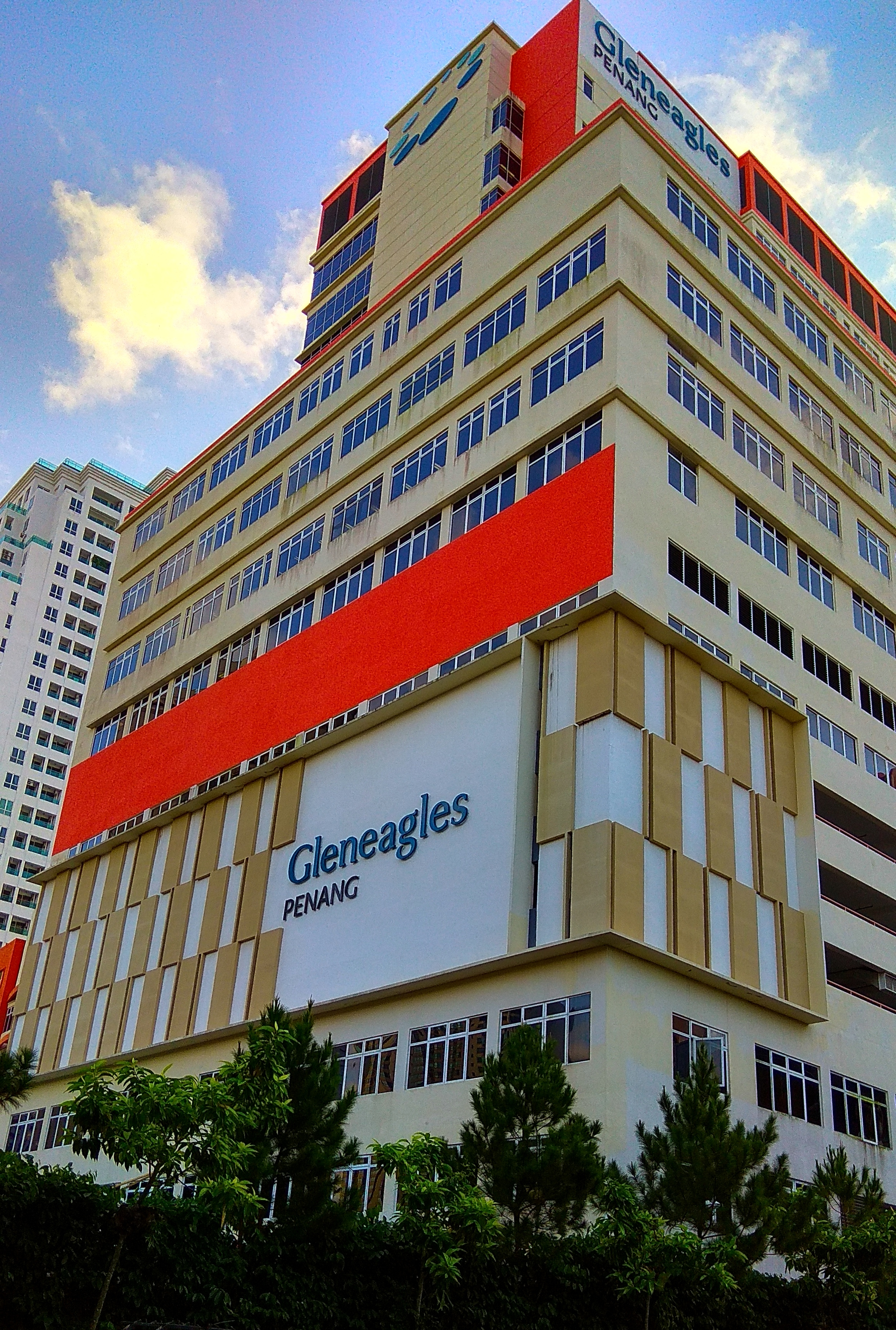 Gleneagles Hospital at Jalan Pangkor in the city of George Town in Penang, Malaysia.